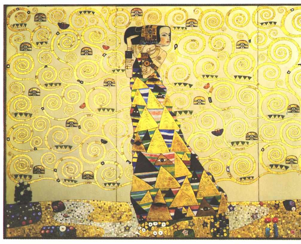 Design for the Stocletfries - Expectation